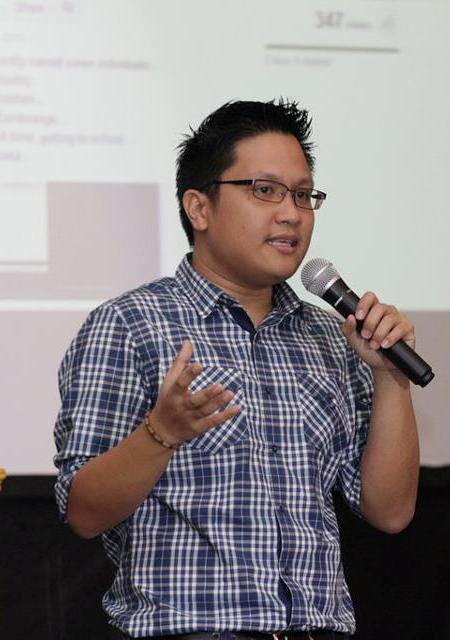 Jay Jaboneta during the Voices of Leadership Seminar.